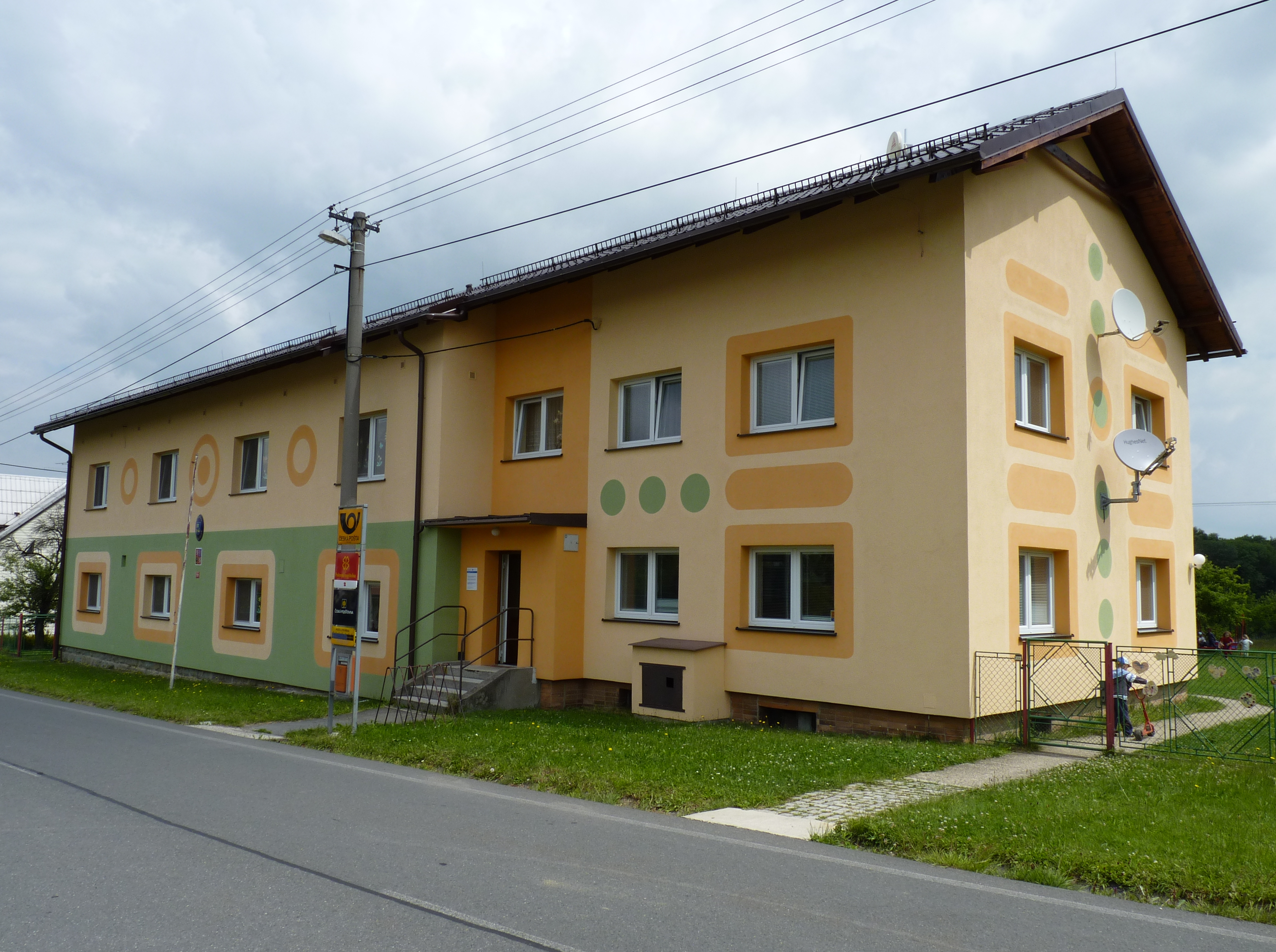 Dobratice. Frýdek-Místek District, Moravian-Silesian Region, Czech Republic